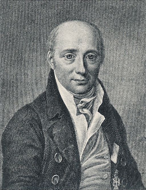 Professor dr. med. Ole Hieronymus Mynster. Efter et samtidigt kobberstik.